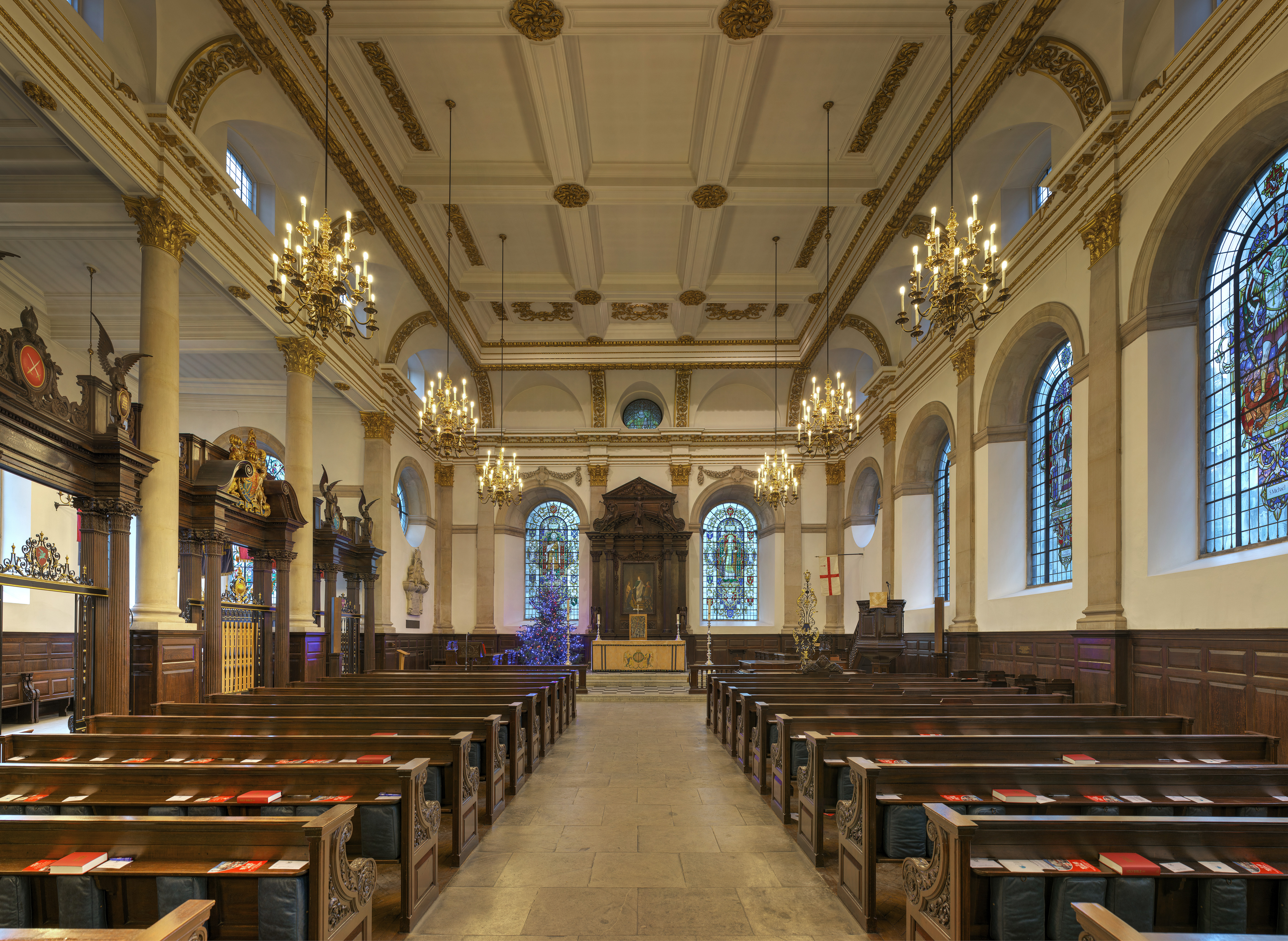 A highly resolution, rectilinear, perspective corrected view of the interior of St. Lawrence Jewry in the City of London, UK.